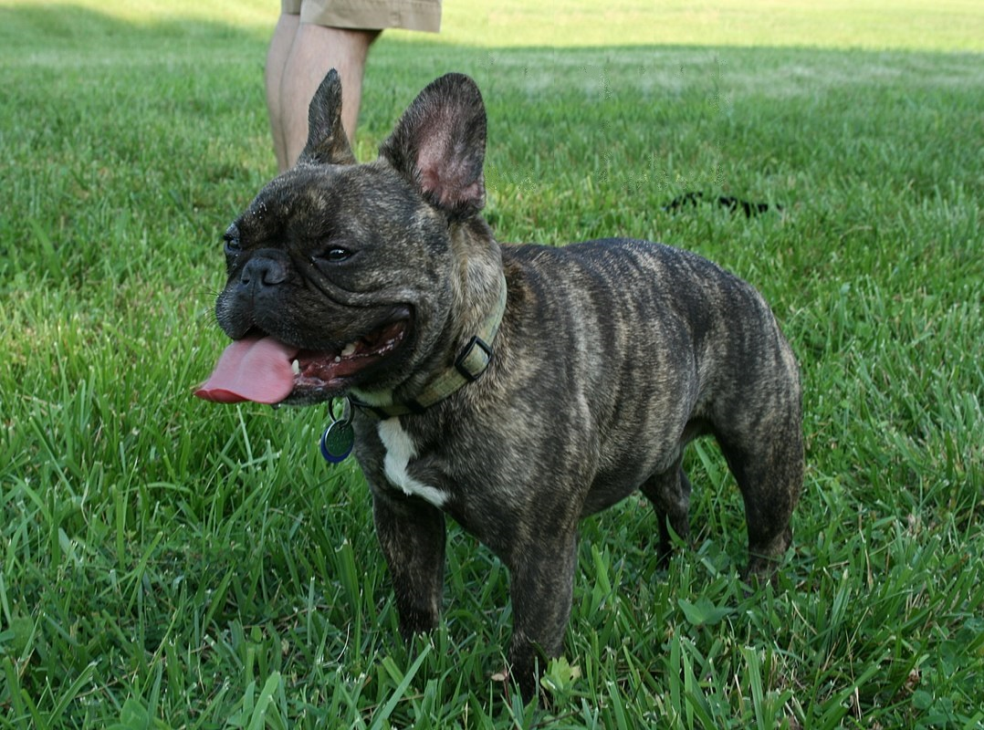 A French Bulldog in Durham, North Carolina.